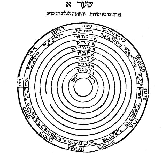 Ptolemaic cosmological diagram (planetary circles surrounded by Zodiac constellations) in Hebrew.